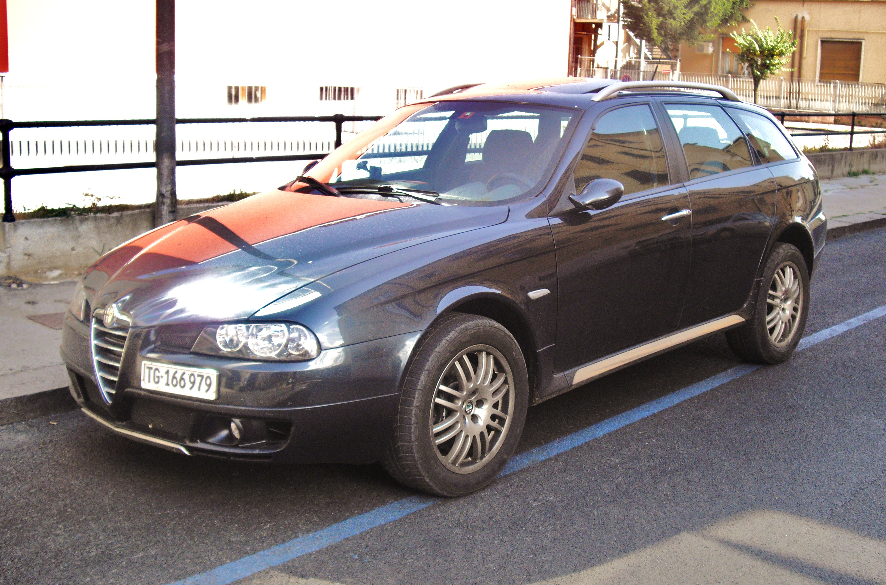 Alfa Romeo 156 Crosswagon